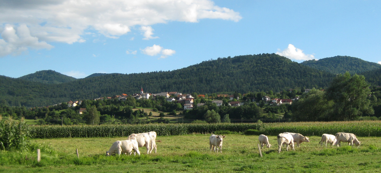 Kamnik pod Krimom, village in Slovenia